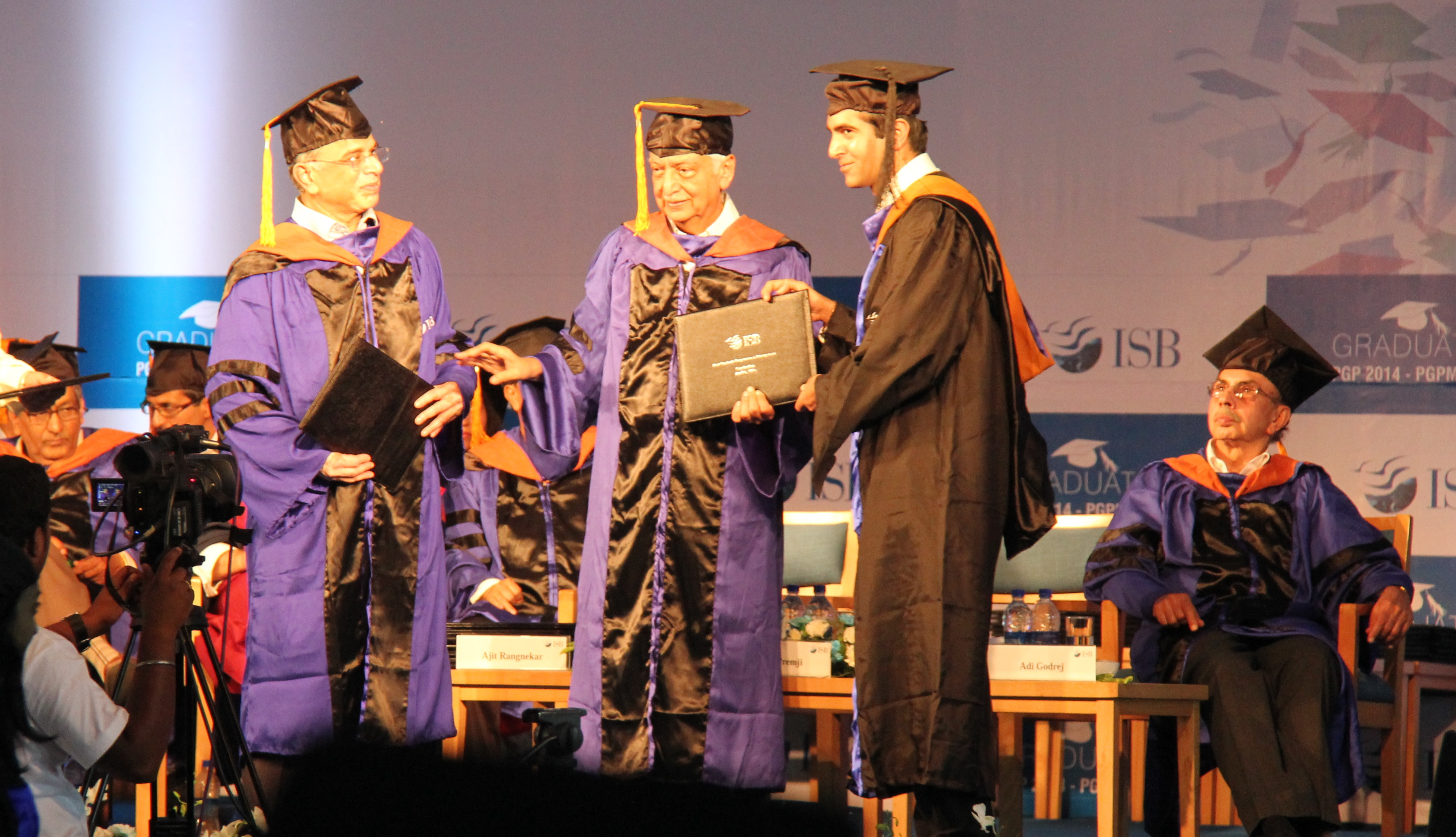 Student receiving academic degree from Indian businessman Azim Premji. Businessman Adi Godrej is seated in the corner